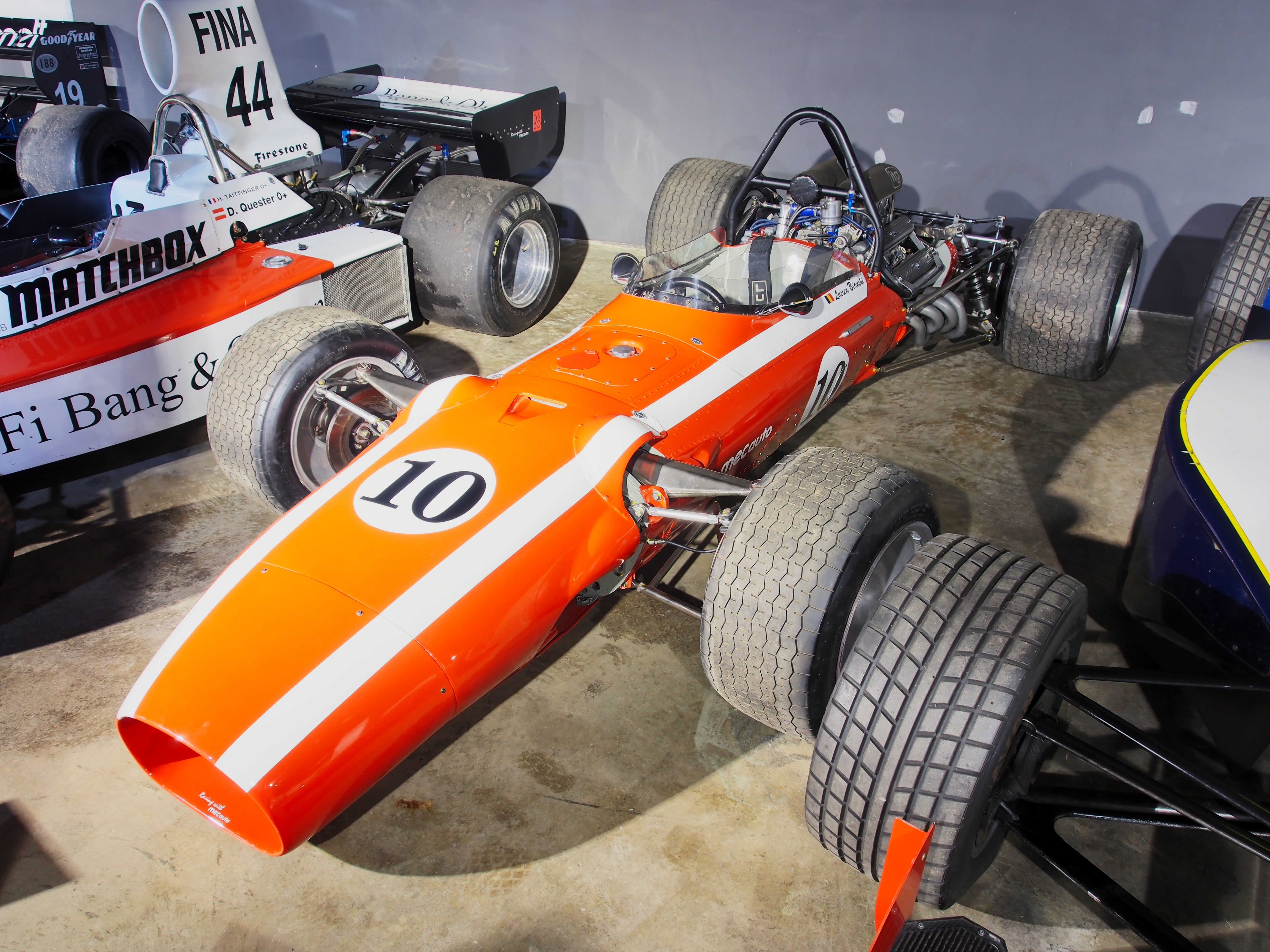 Photographed at the Spa-Francorchamps Racing Museum.